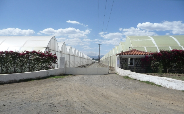 Green houses for flowers, Naivasha